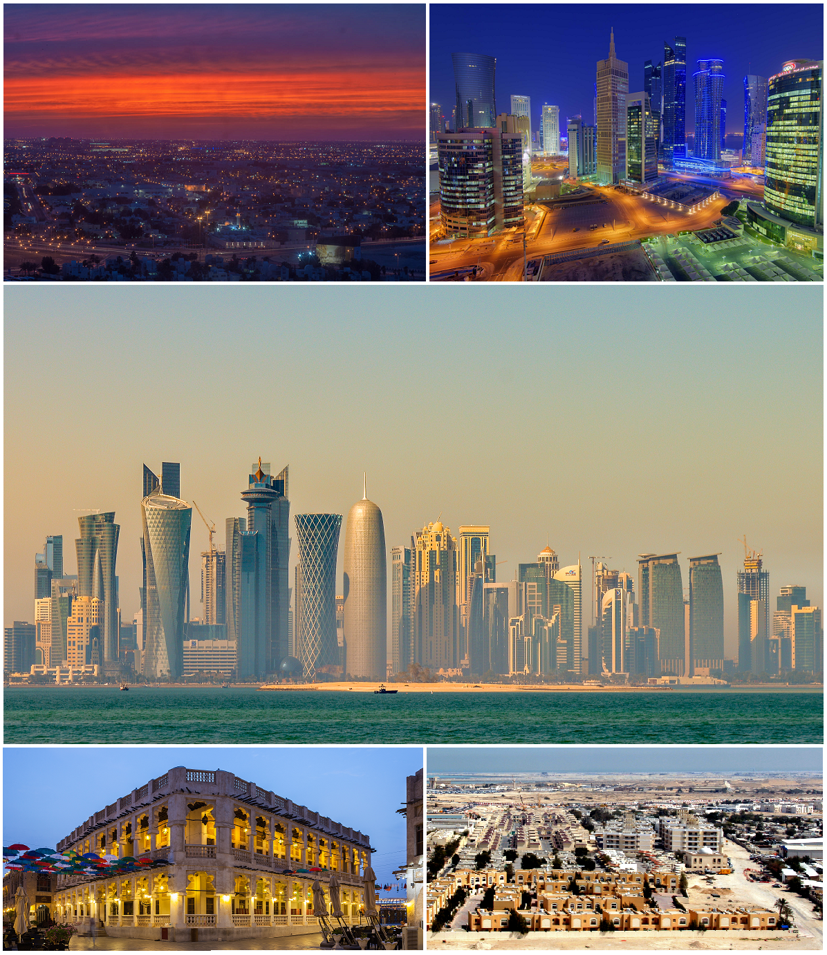 Overlooking Qatar's capital Doha in the evening from Ezdan Hotel.